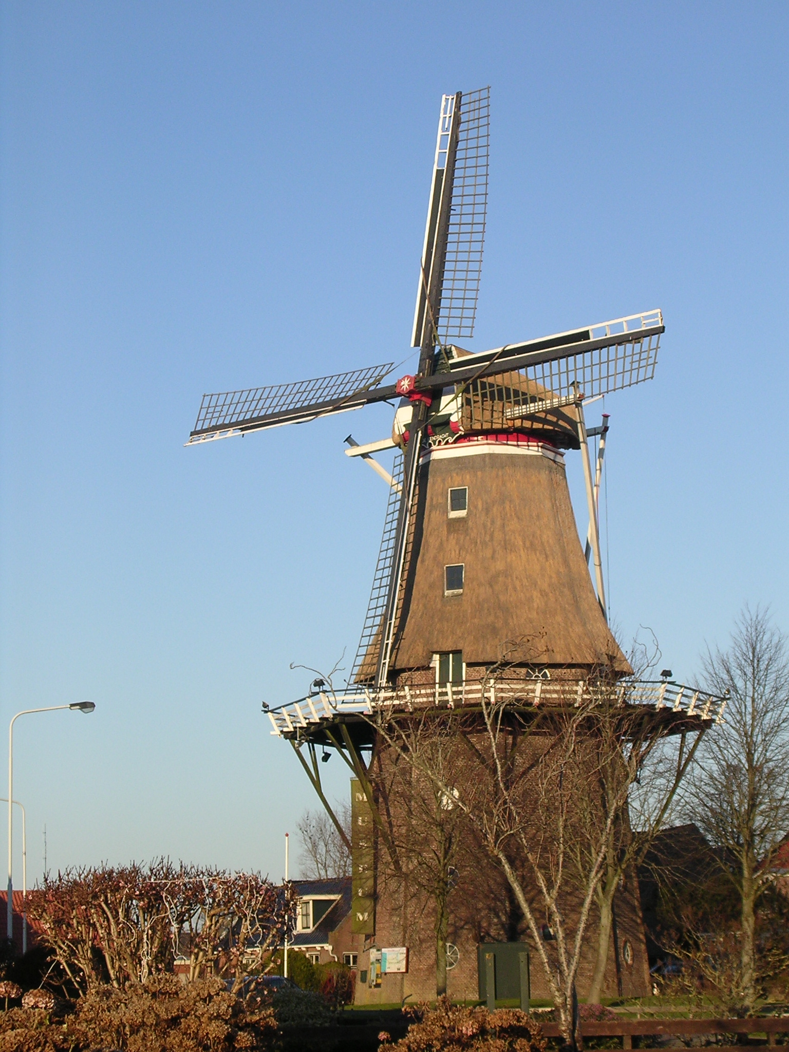 Moune fan Eanjum (Windmill in the village of Anjum)